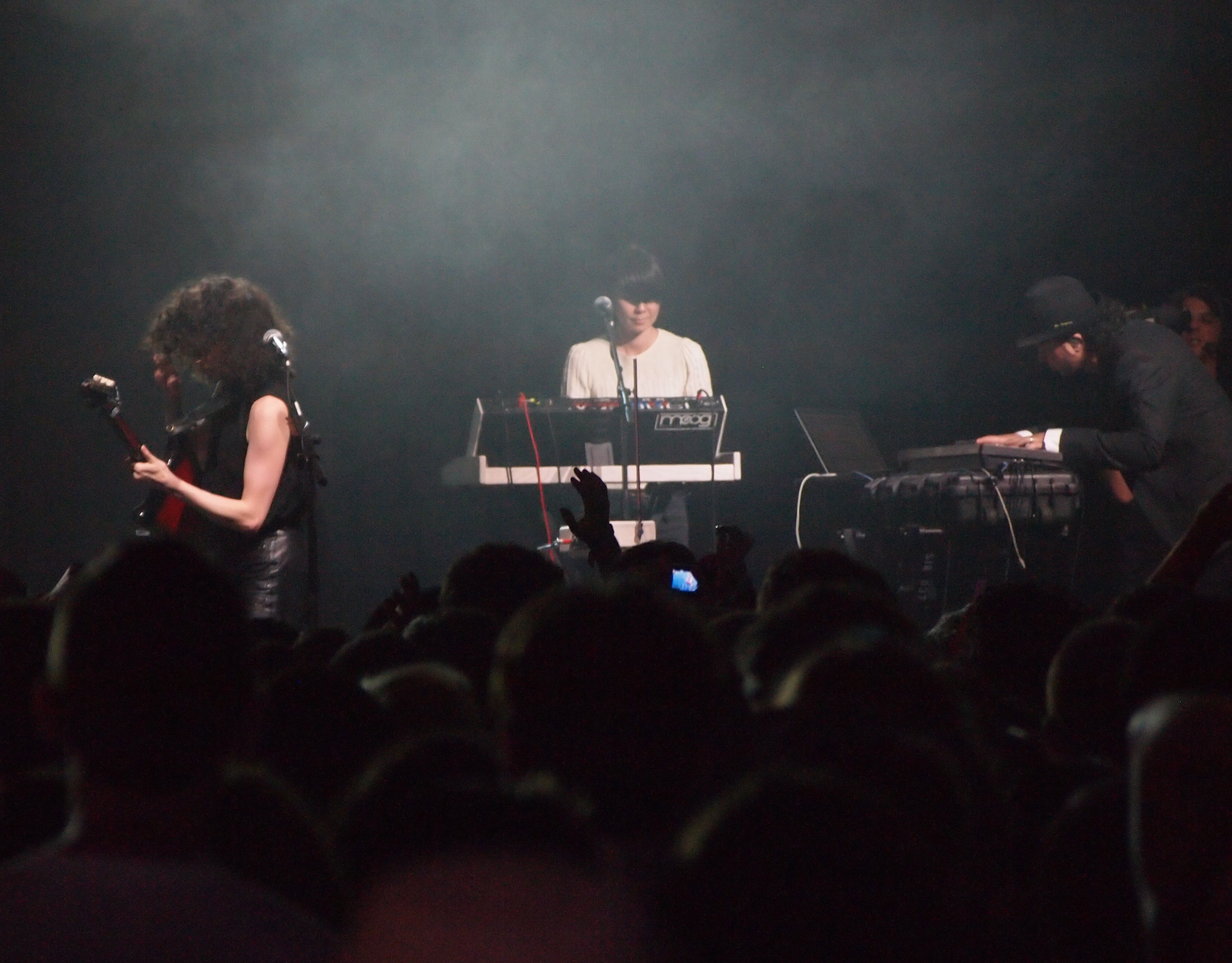 Annie Clark and her band performs Friday night at Bonnaroo.